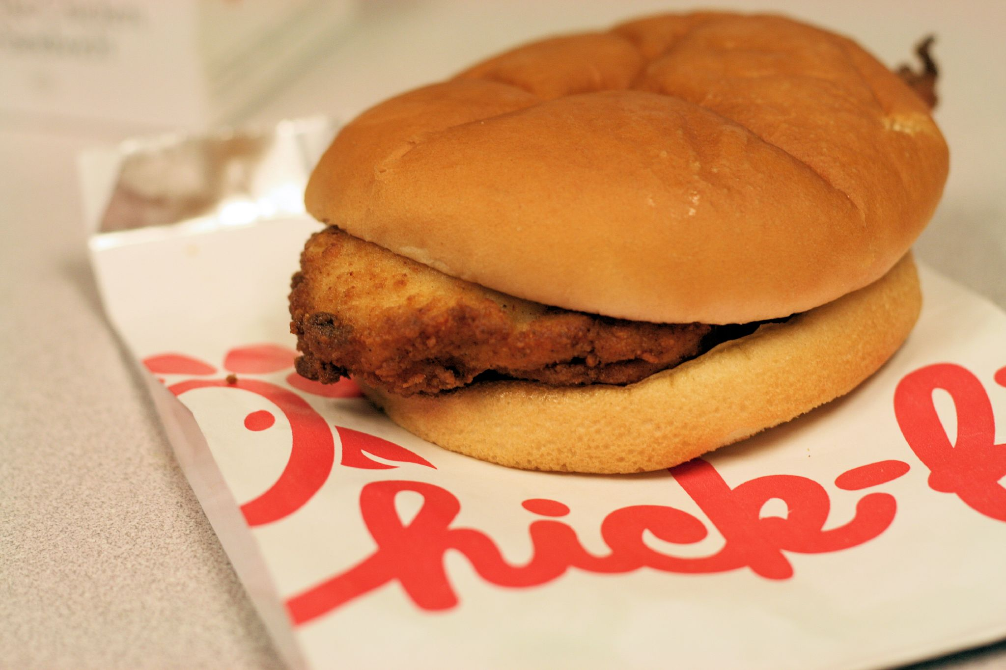 Chick-Fil-A's signature chicken sandwich